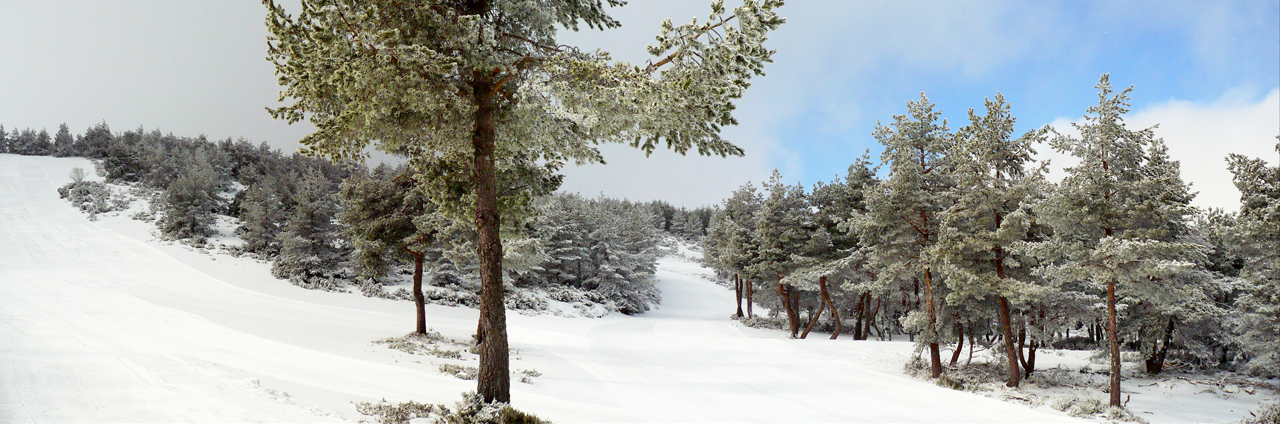 View of Manzaneda ski resort, a familiar ski resort in Galicia, Spain